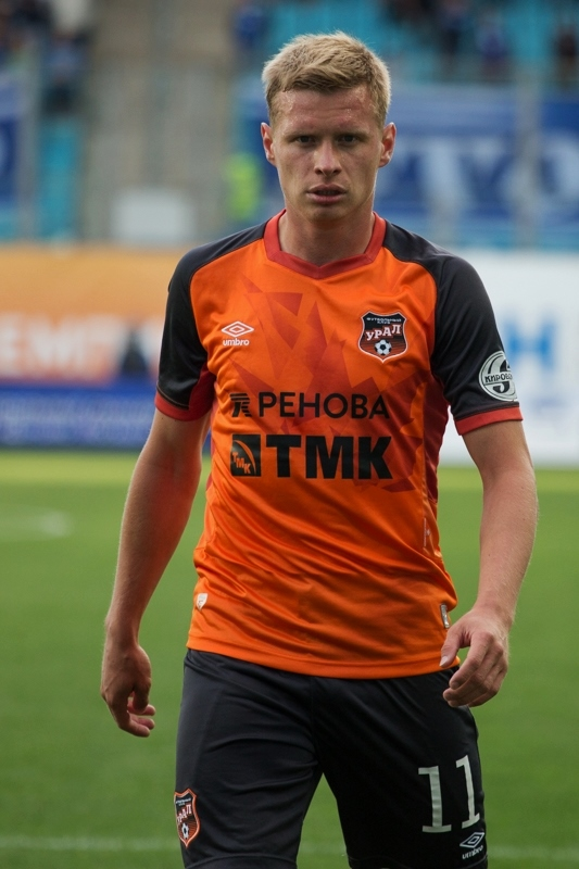 Aleksandr Stavpets